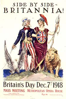 Britannia with the British Lion and Uncle Sam with the American Bald Eagle on a World War I poster.